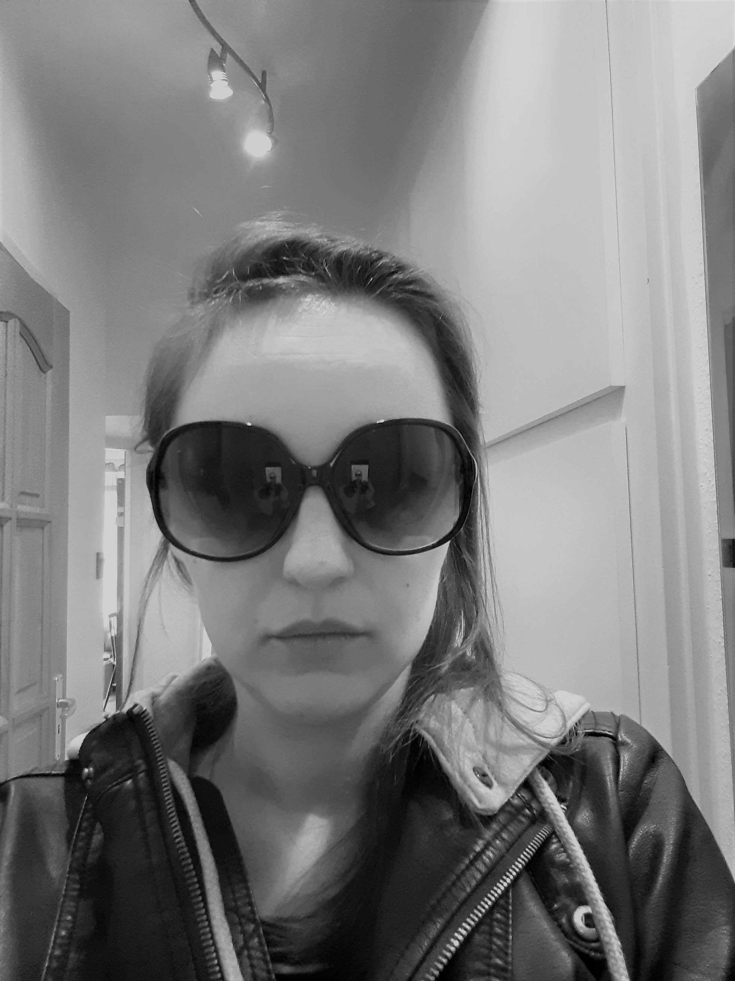 Kornelia Deres